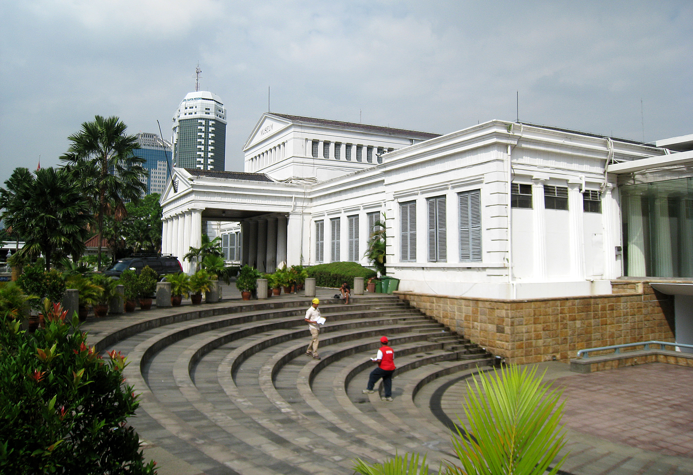 Gedung Gajah, the old wing of National Museum of Indonesia, Jakarta.